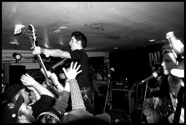 Knucklehead Live